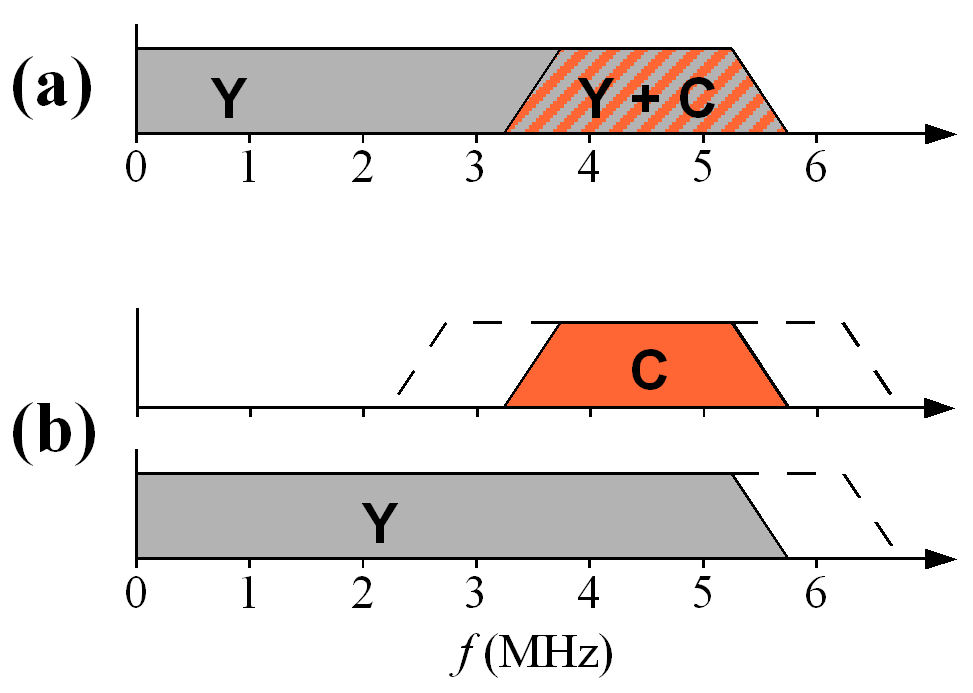 Frequency spectrum of (a) composite video and (b) S-video